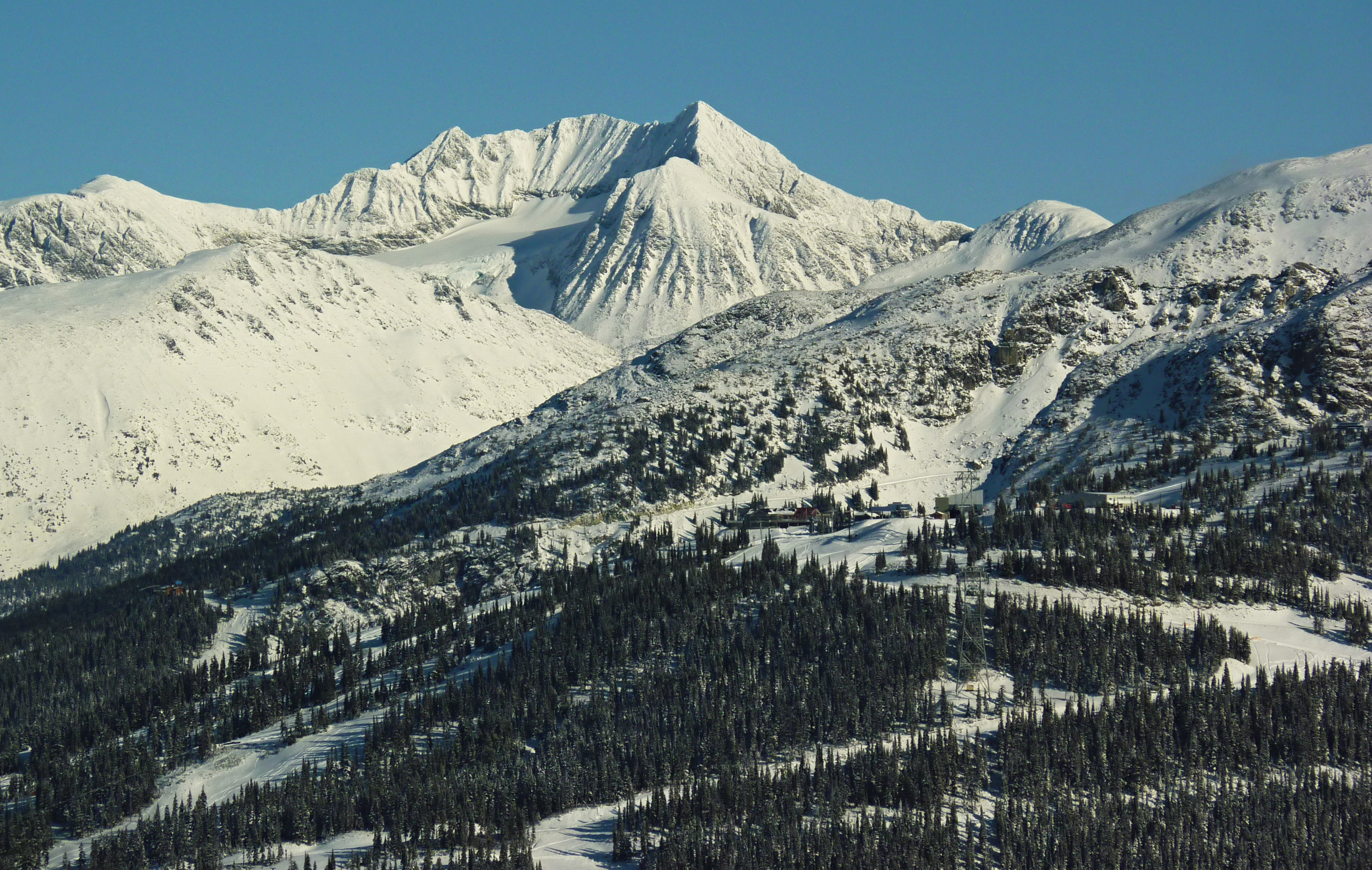 Mount Weart seen from Whistler Mountain